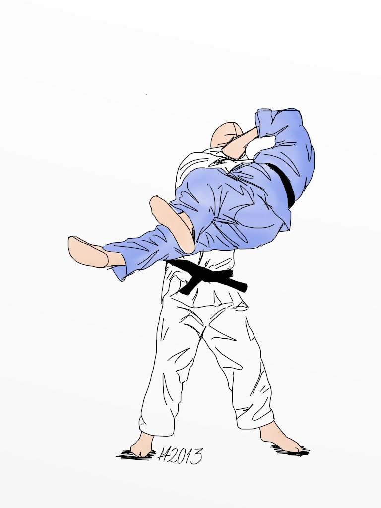 Illustration of the judo technique ushiro-goshi, or reverse-hip throw.